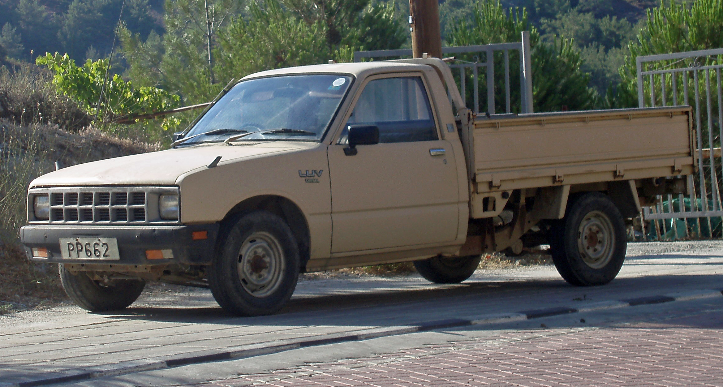 1982 Chevrolet LUV diesel (KB), located in Troodos, Cyprus Old Cars Cyprus facebook page